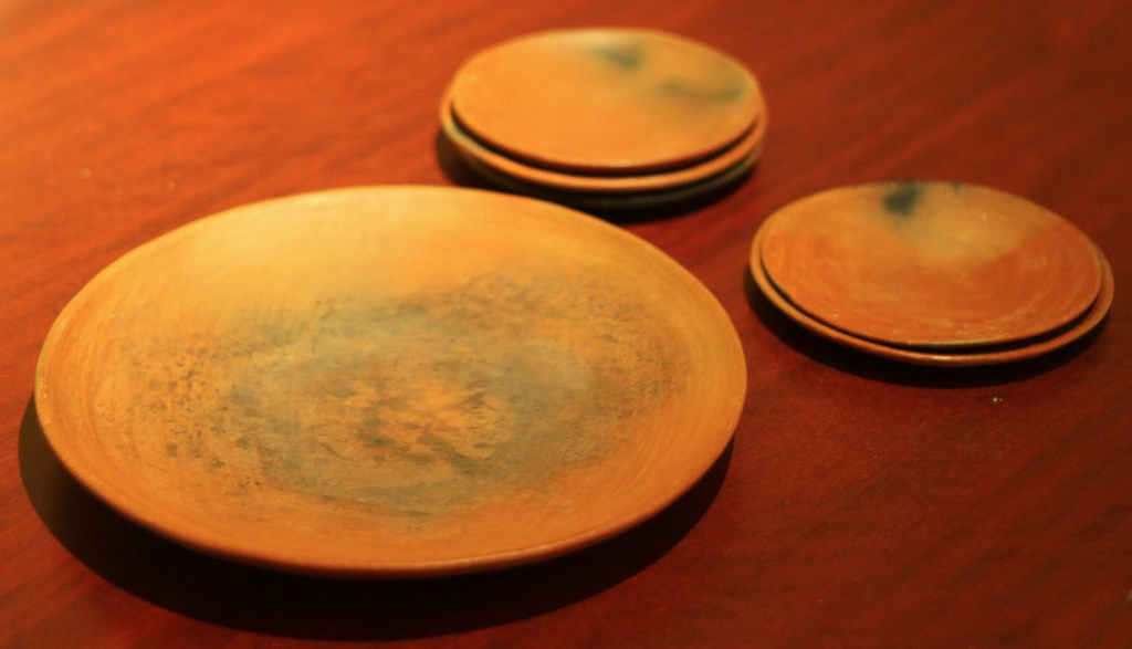 Traditional barro comals from Oaxaca, Mexico.